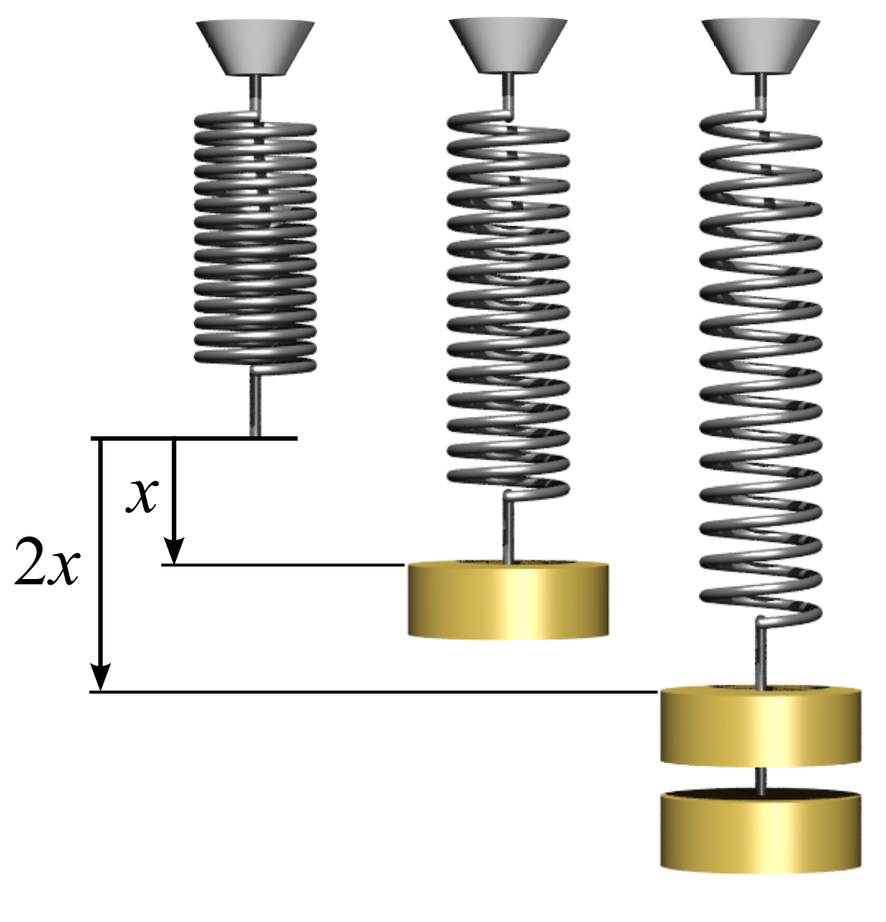 Hookes law